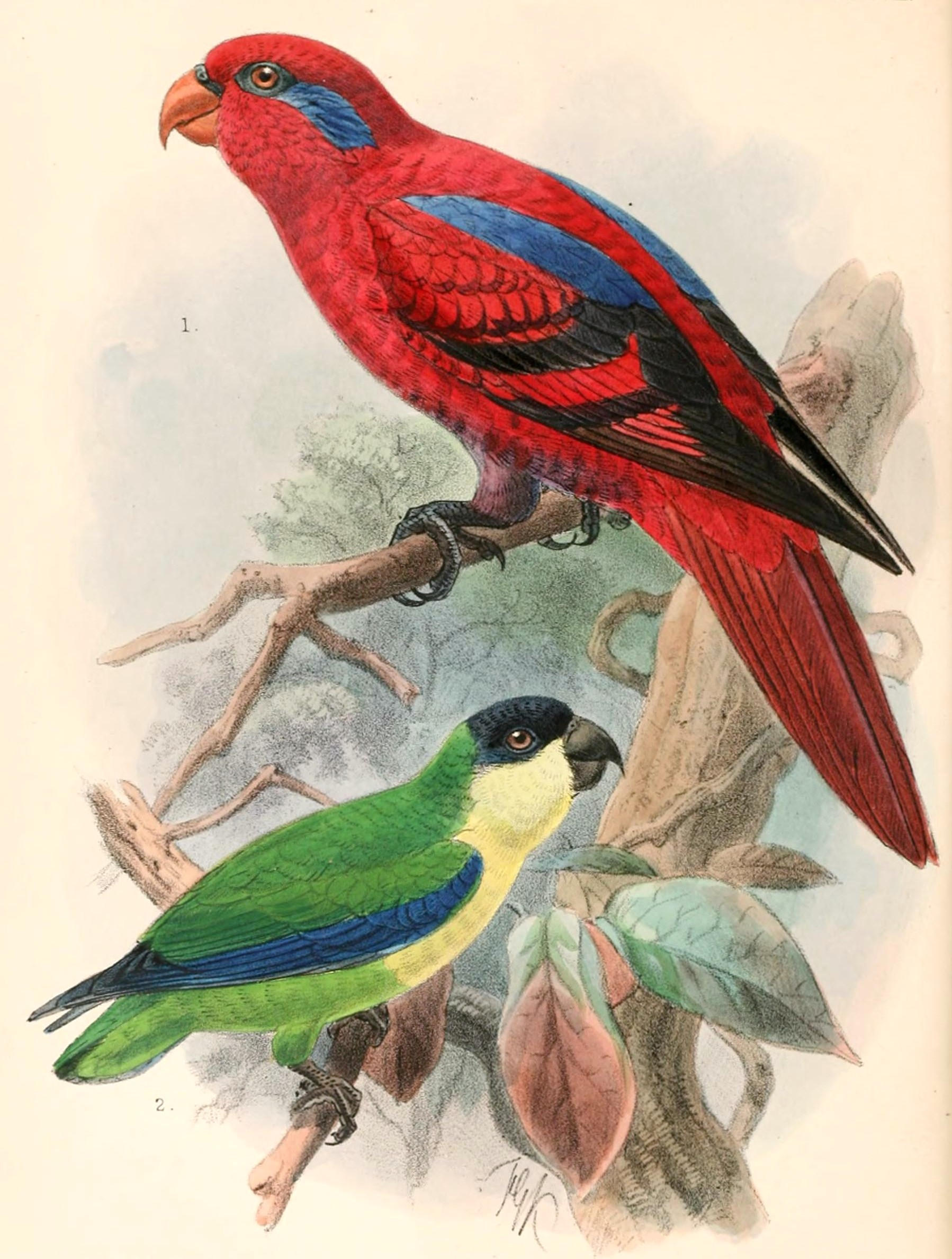 « Eos borneus » = Eos bornea (Red Lory) - young « Cyclopsittacus macilwraithi » = Cyclopsitta gulielmitertii amabilis (Subspecies of Orange-breasted Fig-Parrot)